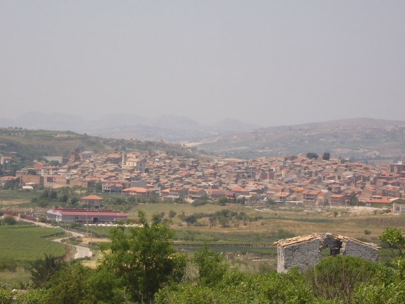 castrofilippo panorama